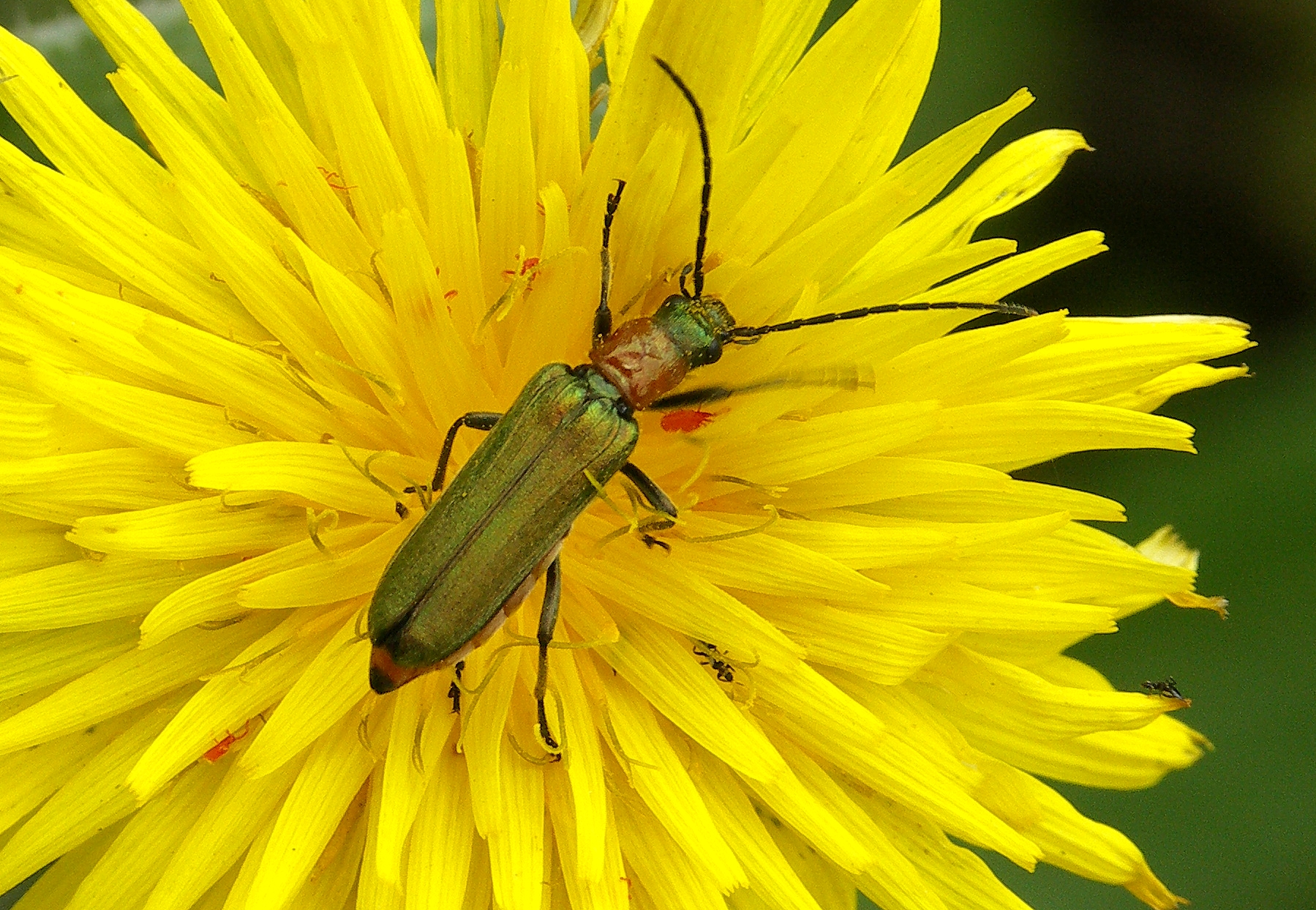 False blister beetle of species Anogcodes seladonius on an Hawkweed flower